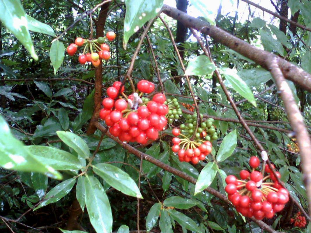 Rowan Red Berries at Kambalakonda Wildlife Sanctuary in Visakhapatnam